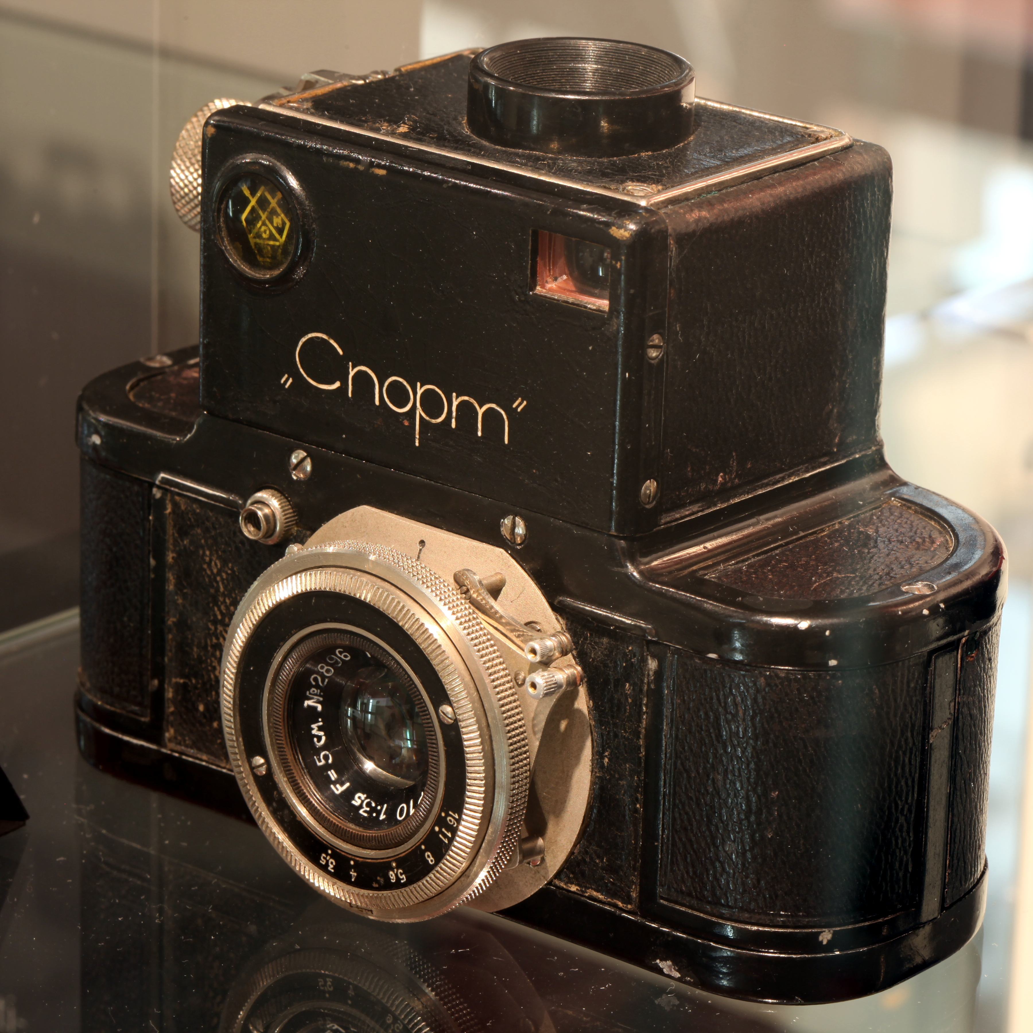 Sport camera (1935), the first small format reflex camera